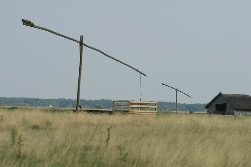 Well (hungarian gémeskút) in the Hortobágy National Park (?) Puszta, Hungary